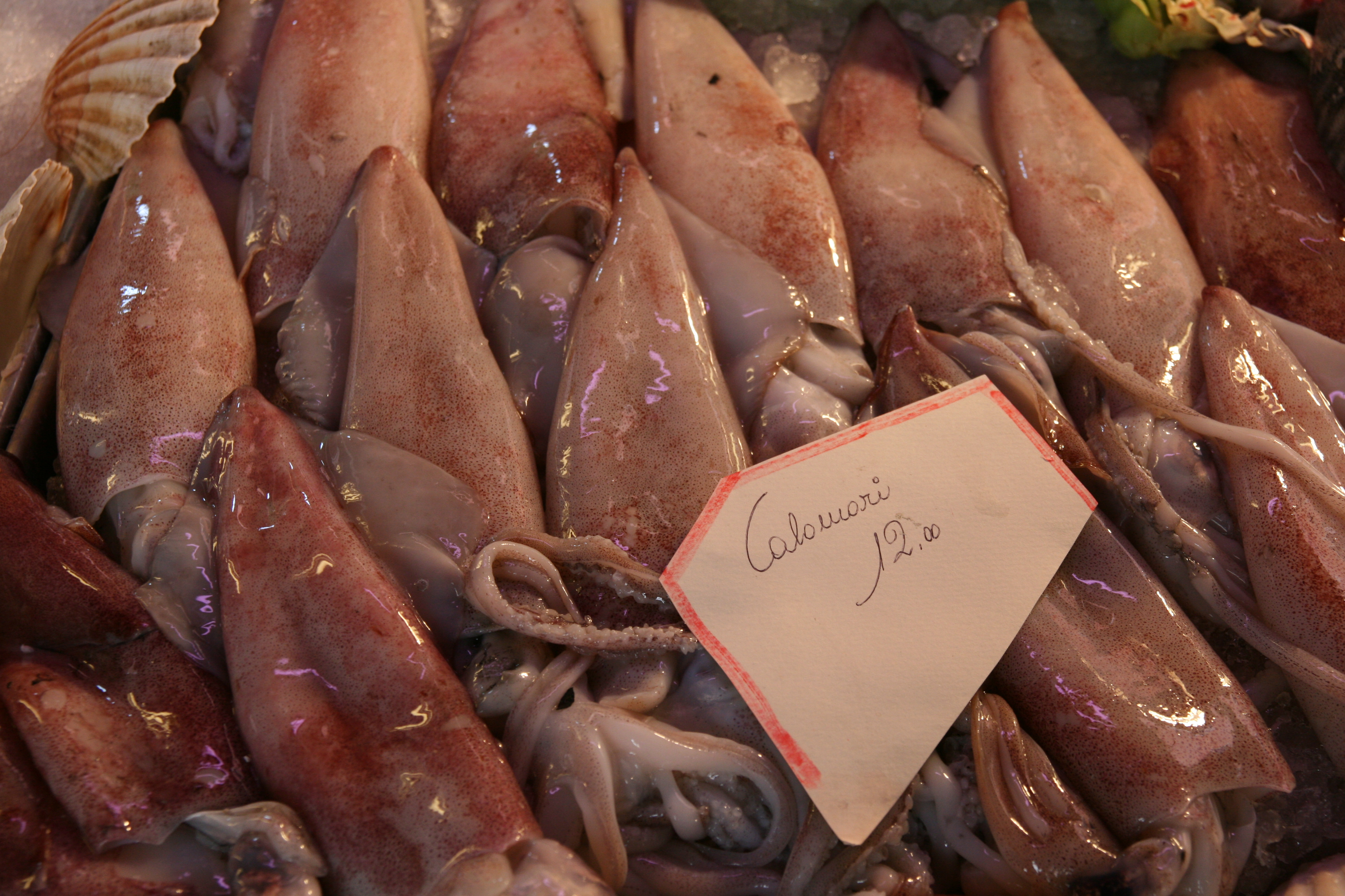 squid